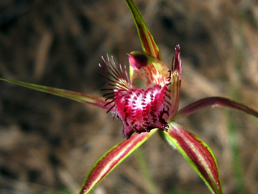 Kings Park Spider Orchid )Caladenia arenicola